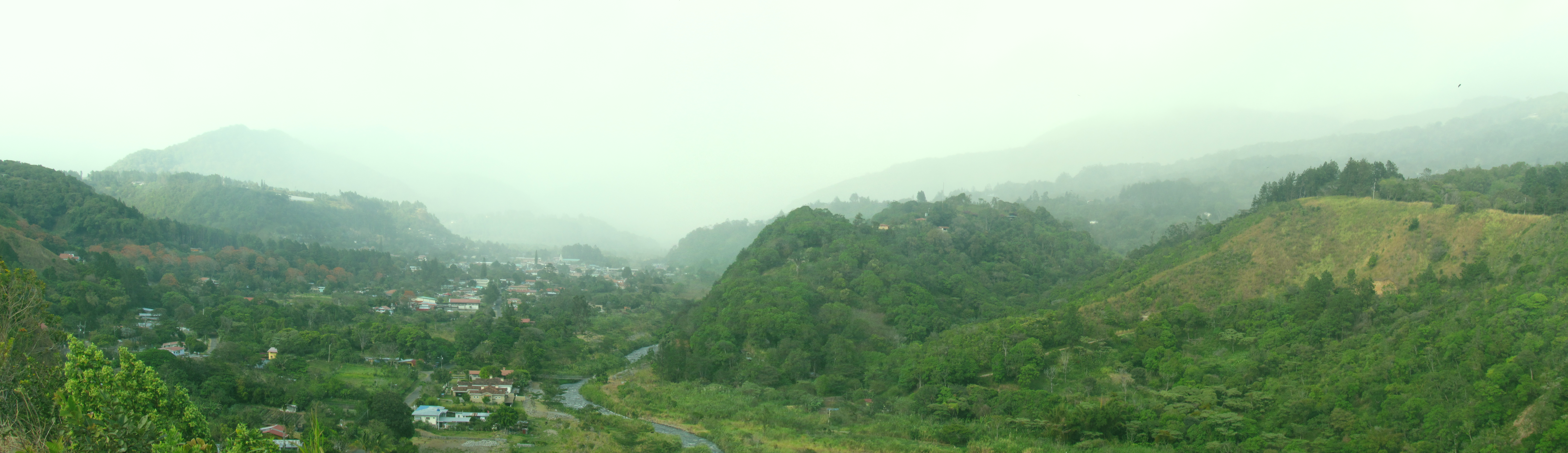 This picture is from Boquete valley in mountains of Chiriquí, between Cordillera Central and Volcán Barú. This landscape was with bajareque (light rain in mountains). This area is part of La Amistad Panama Biosphere Reserve.